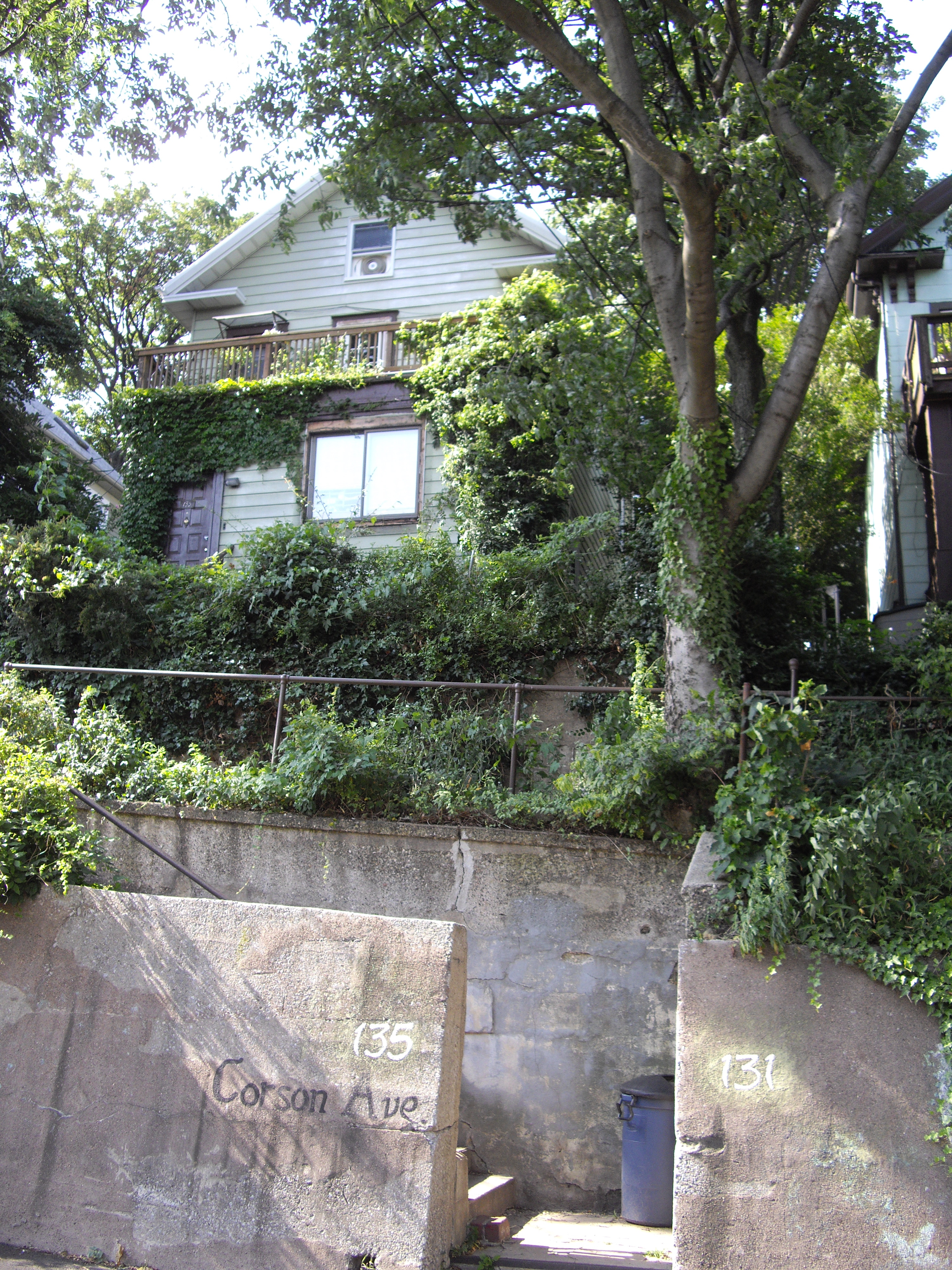 135 Corson Avenue, Staten Island. Home of Ganas